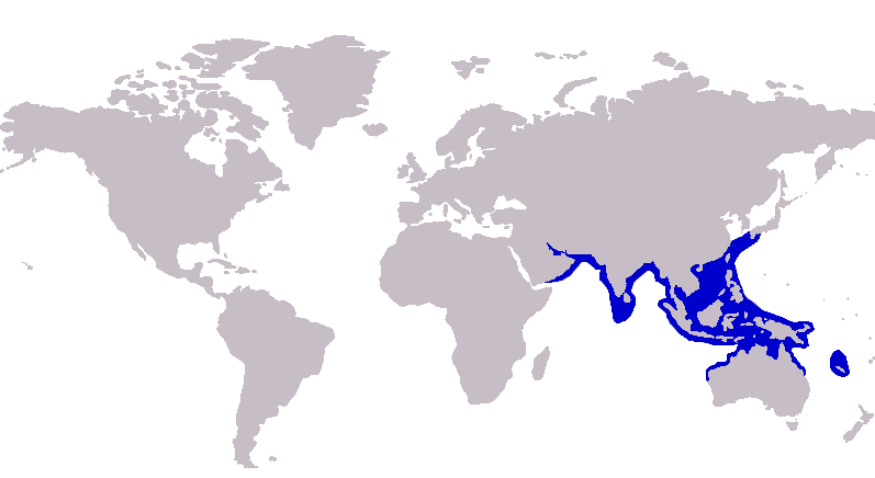 Selaroides leptolepis Base map from GDFL image